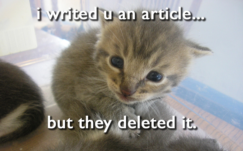 LOLCat Derivative of Image:Kitten-stare.jpg. Captioned with the text "i writed u an article... but they deleted it."